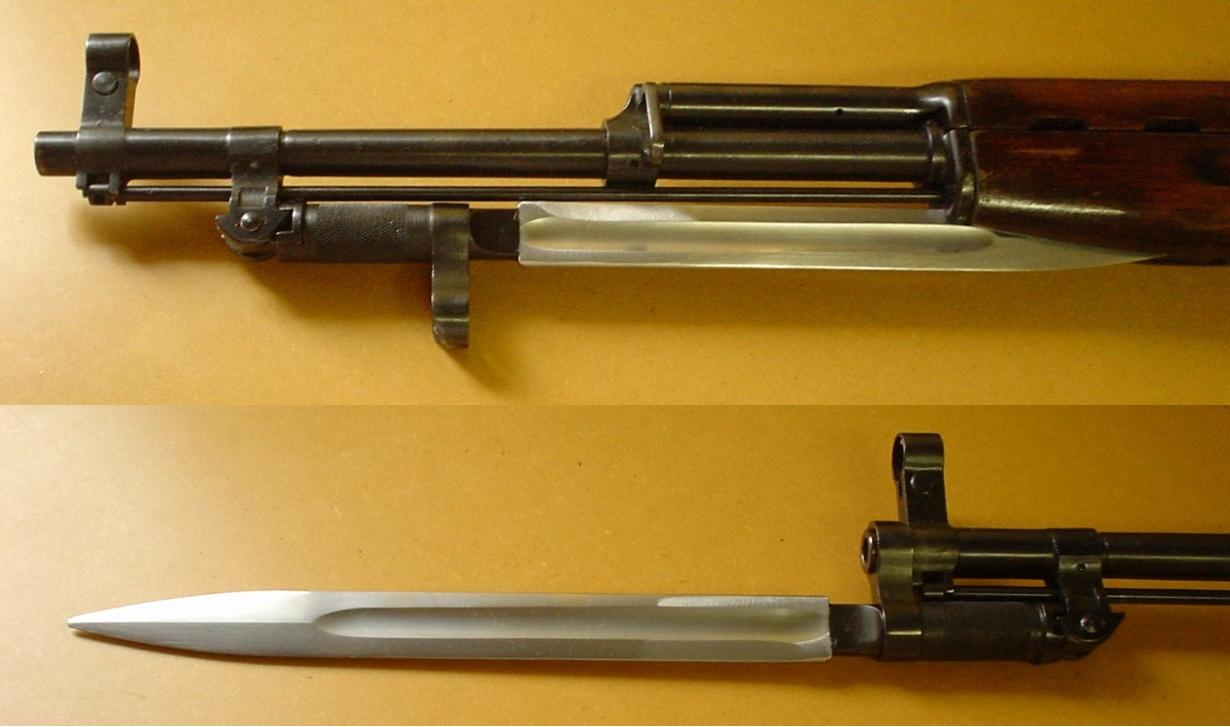 Bayonet of the Soviet SKS.